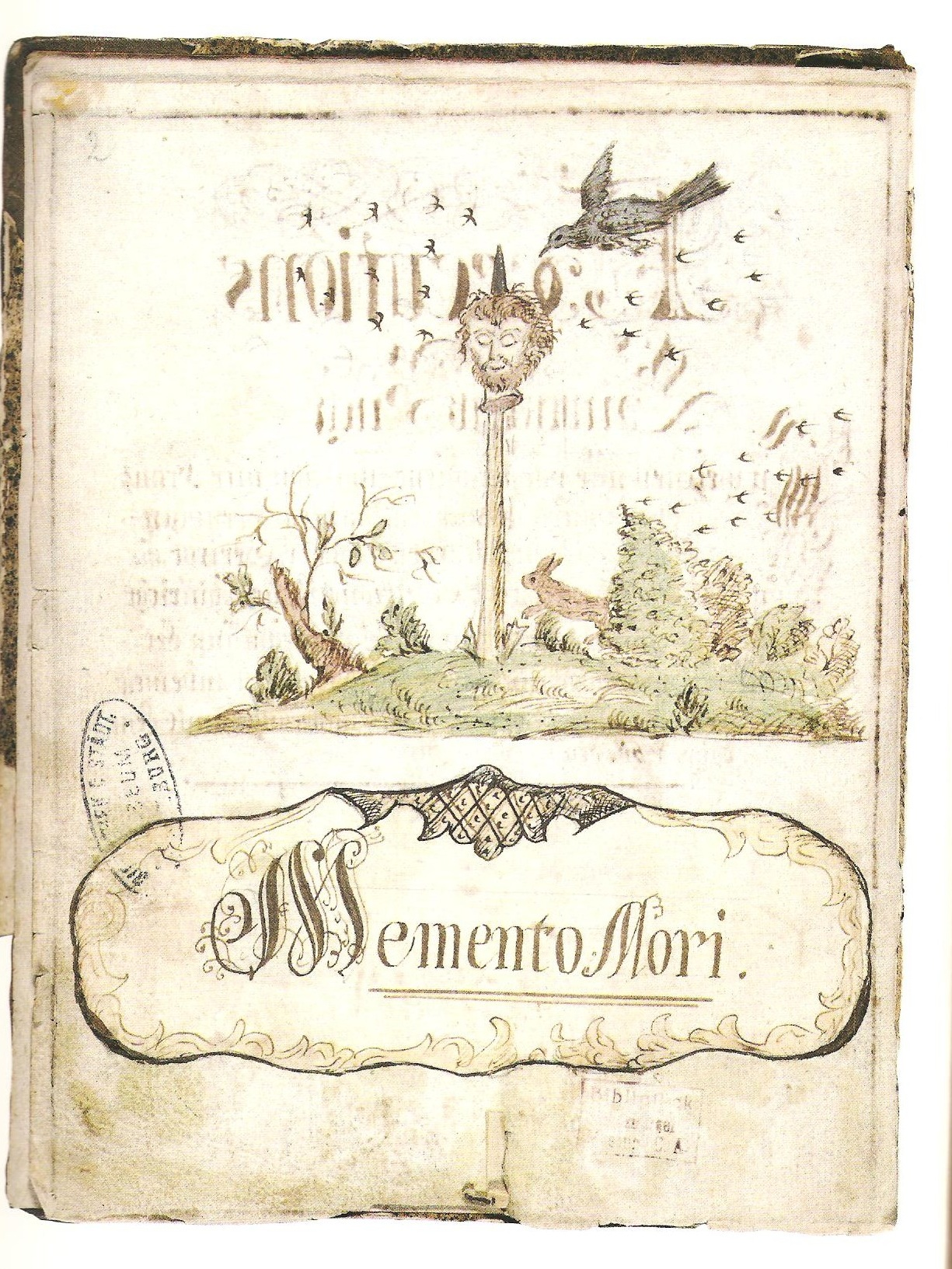 Back of the title page.